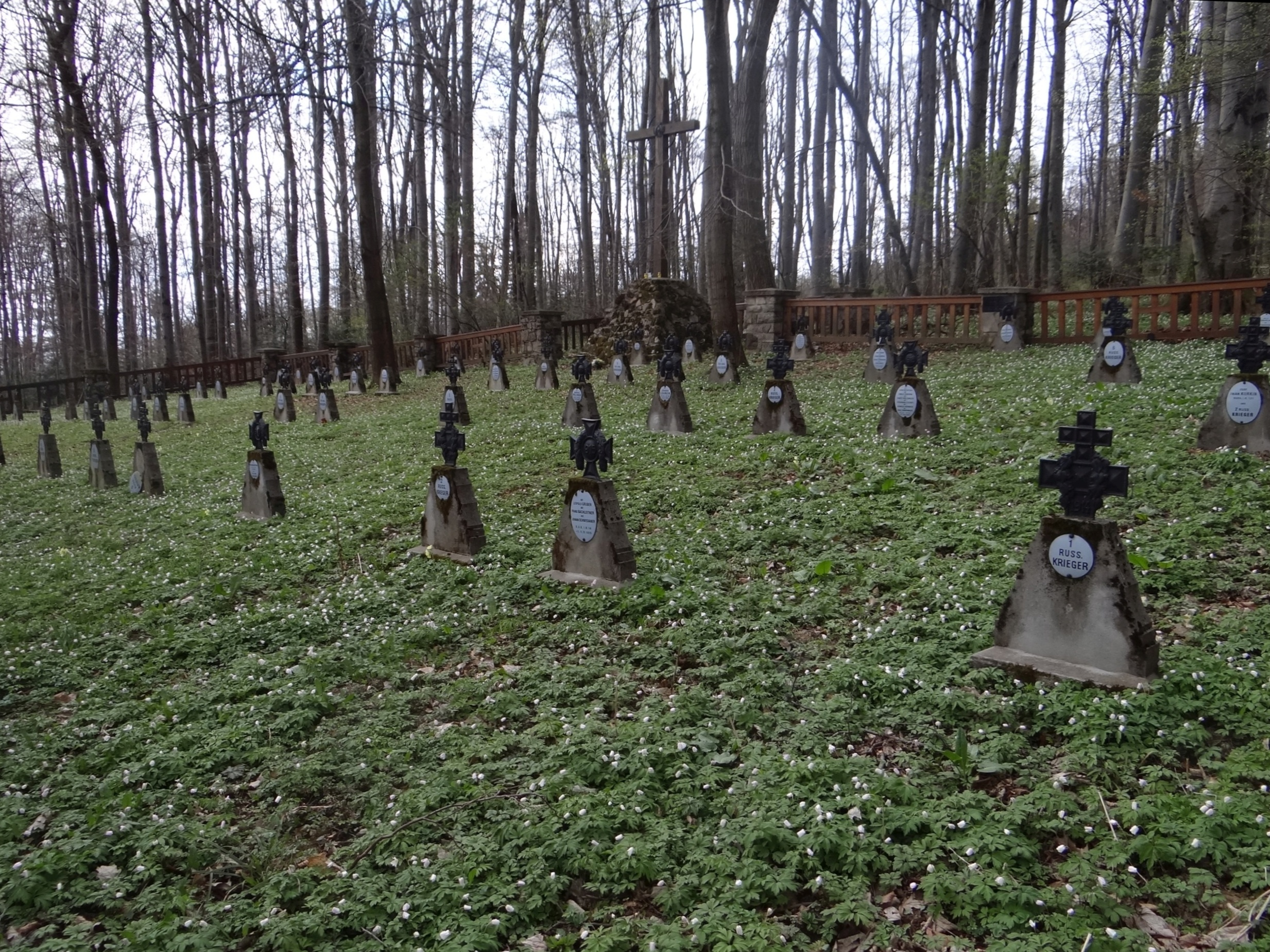 World War I Cemetery nr 187 in Lichwin